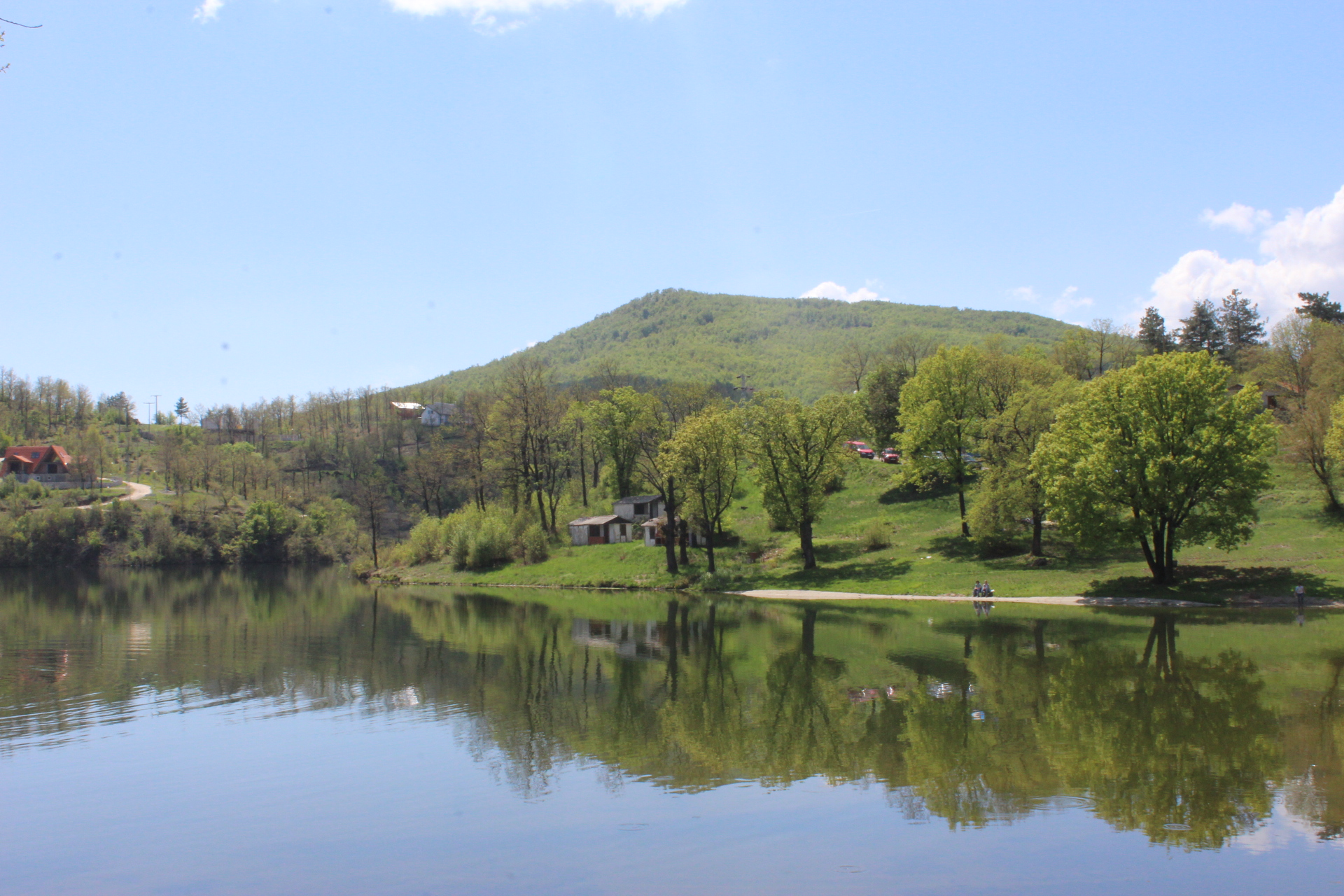 Paleovolcanic cone (or extinct volcanoe) Tilva Njagra. Srpski (latinica): Paleovulkanska kupa Tilva Njagra sa obale Borskog jezera.